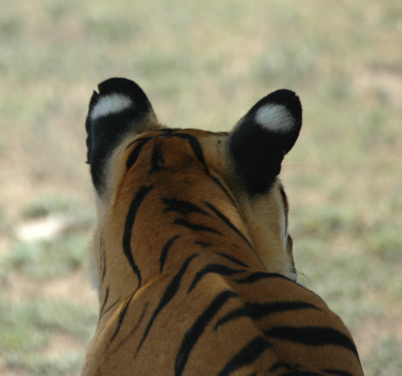 Karmazari Pench National Park